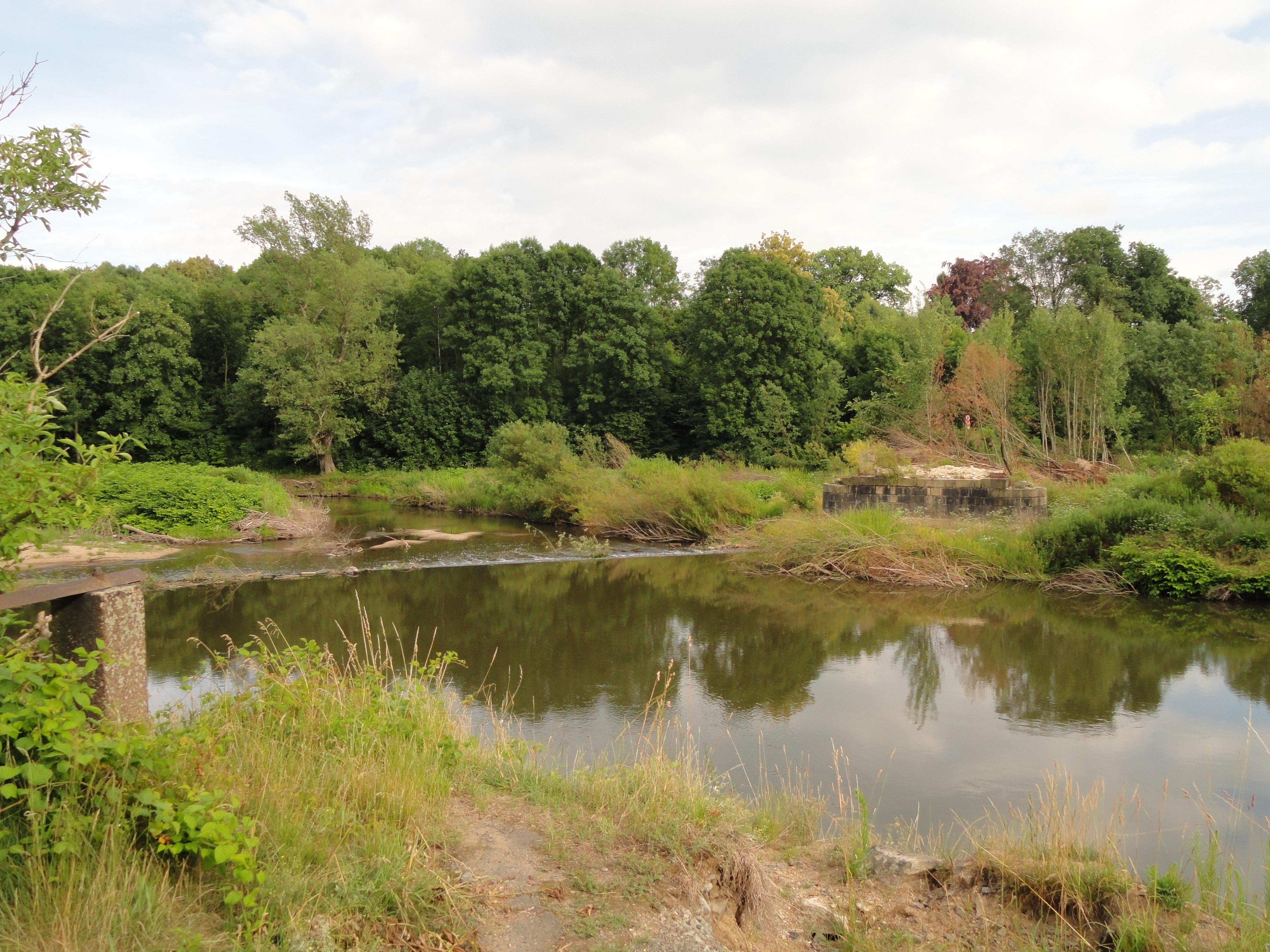 demolished bridge in Görlitz-Weinhübel, Saxony